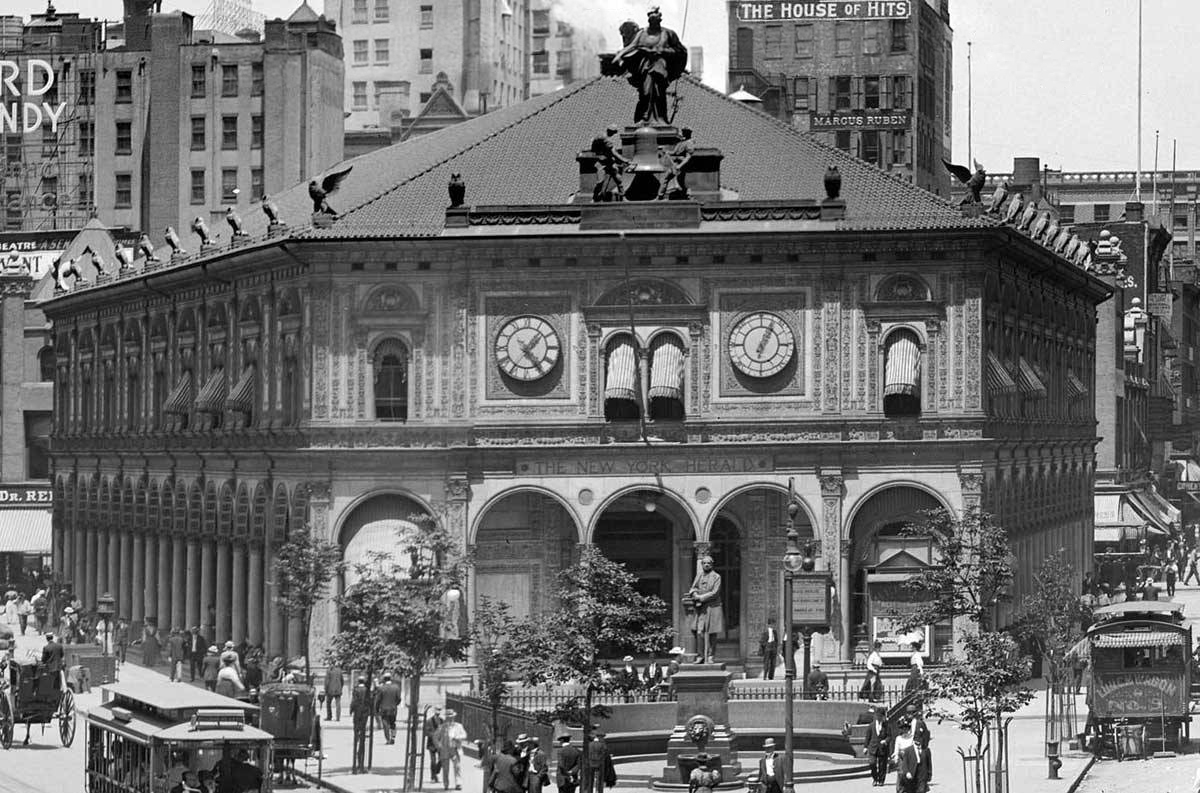 New York Herald Building, general view of Herald Square, intersection of sixth Avenue and Broadway bet. West 34th and West 35th streets, New York, NY.